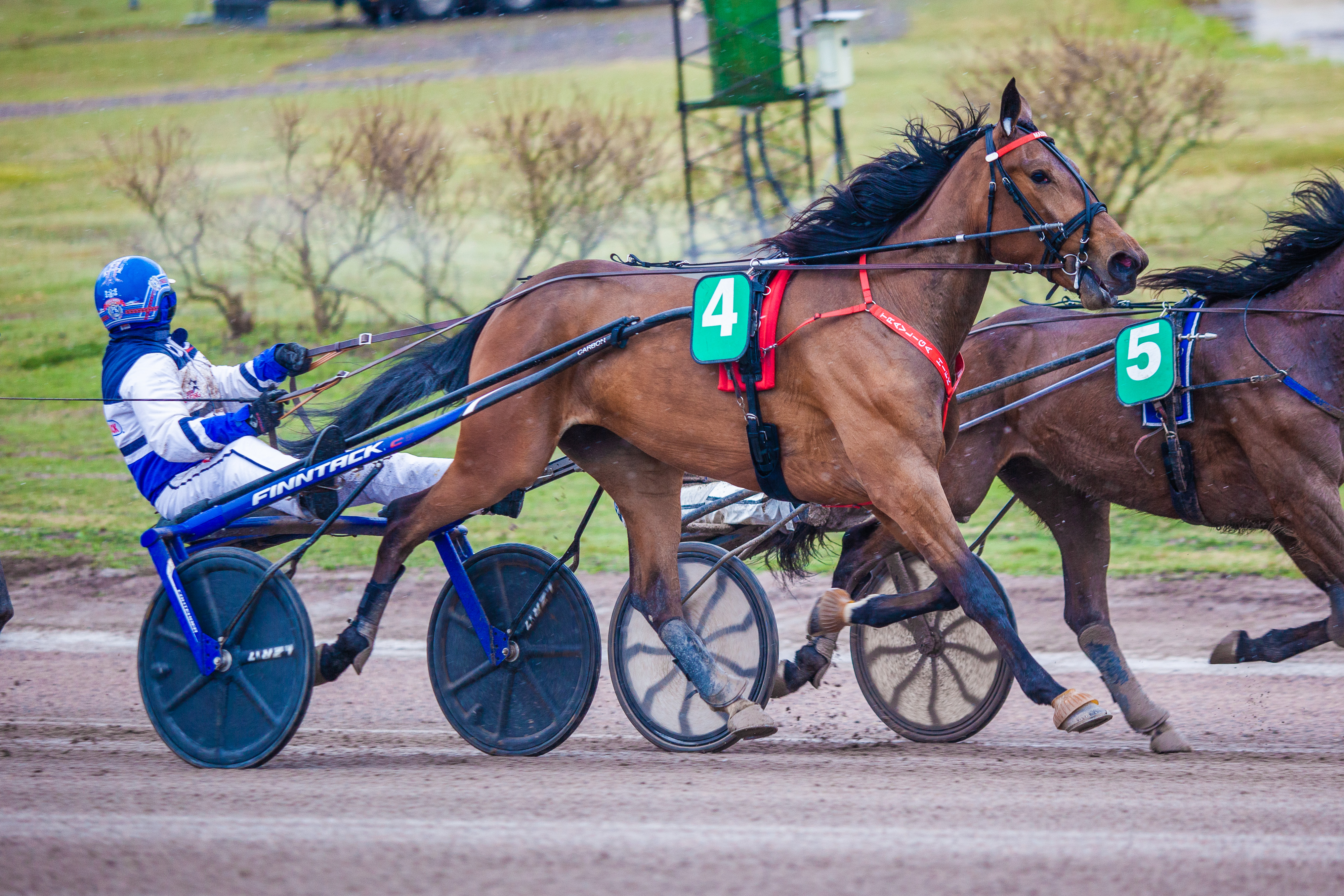 Pekka Korpi and Mascate Match at Vermo 4.5.2019